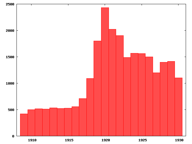 Membership number of the Communist Party of the Netherlands